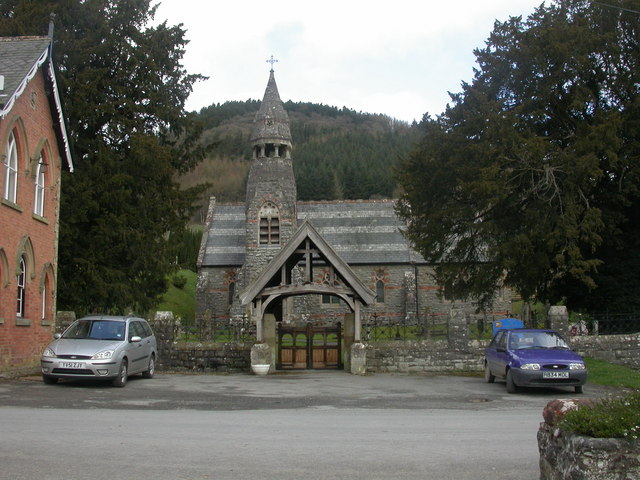 Abbeycwmhir, St. Mary's Church Rebuilt 1865-6; Cwmcynydd Bank in the background